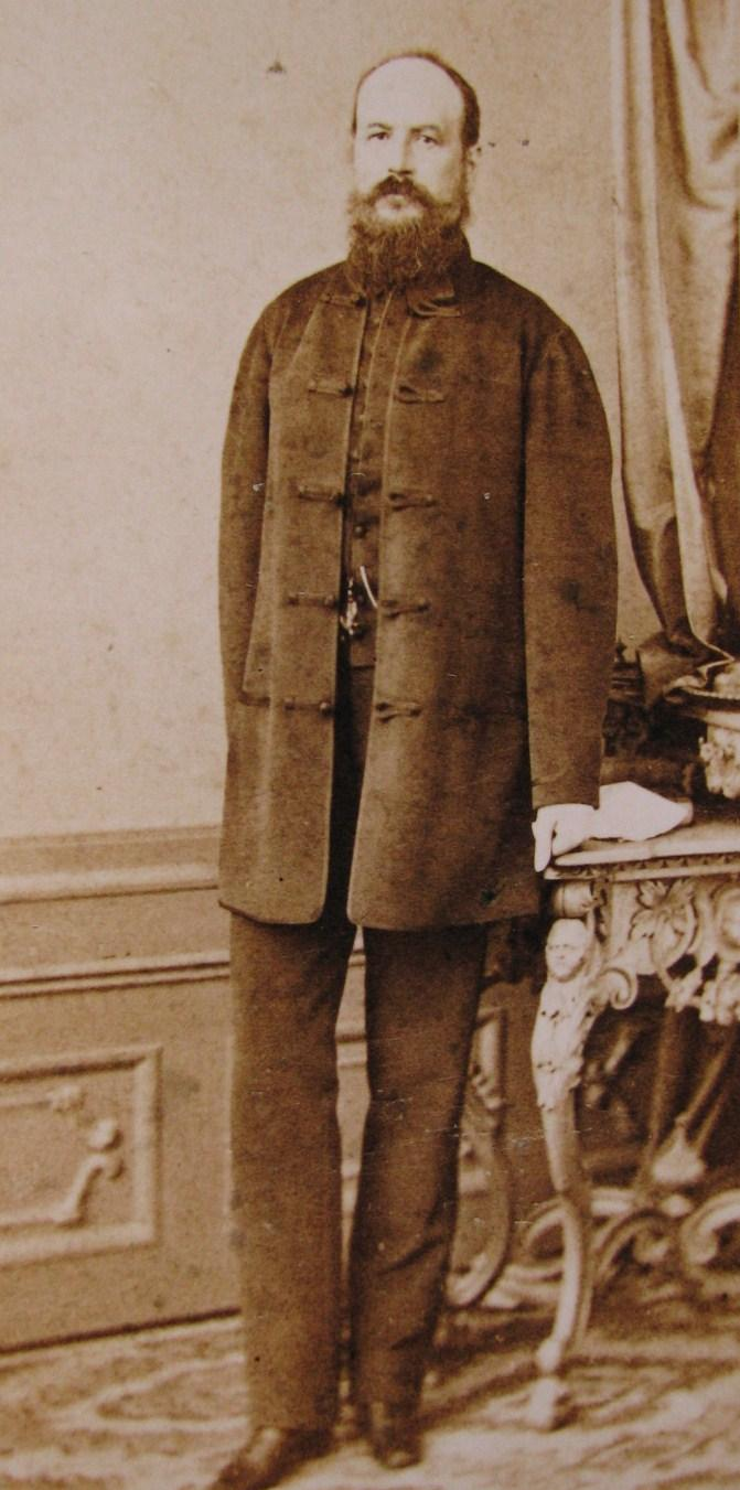 Vice-Roy of Croatia Levin Rauch